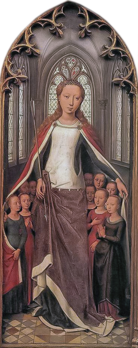 Saint Ursula of Cologne protects the Virgins with her cloak oil on panel 57,5 x 18 cm before 1489-10-21